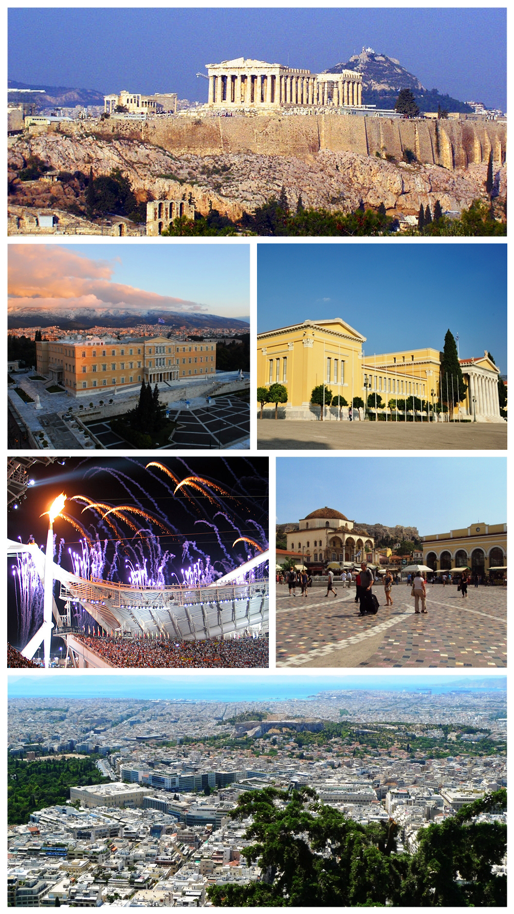 Athens